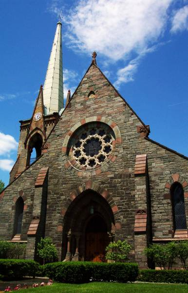 An exterior view of First Reformed Church of Schenectady, built in 1950, on the corner of Church and Union Streets. This is the front door, facing Union Street.